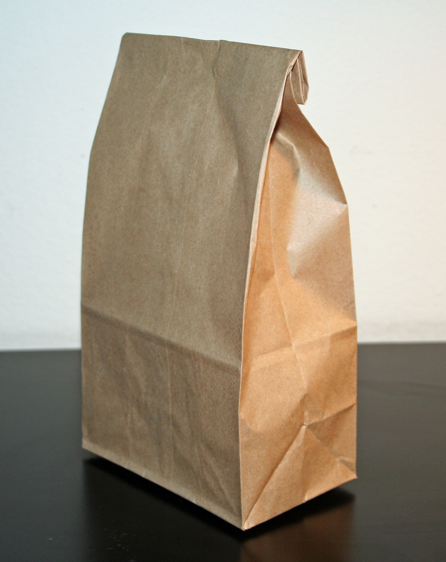 A brown bag lunch sack. No staple.